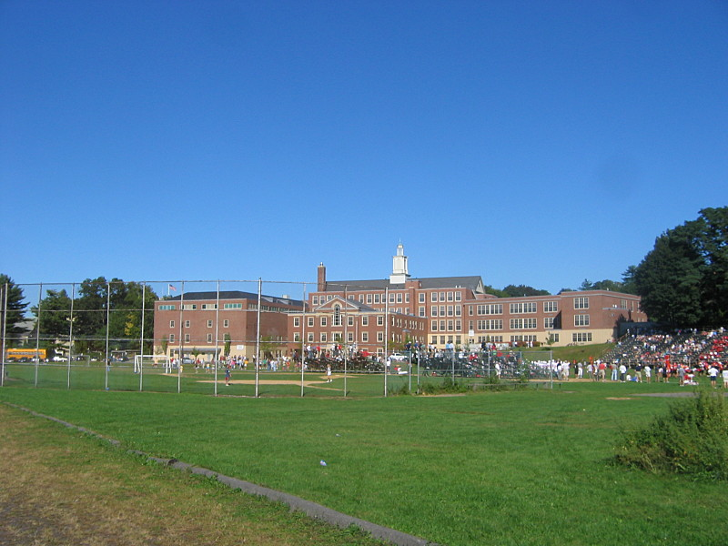 Mccall middle school